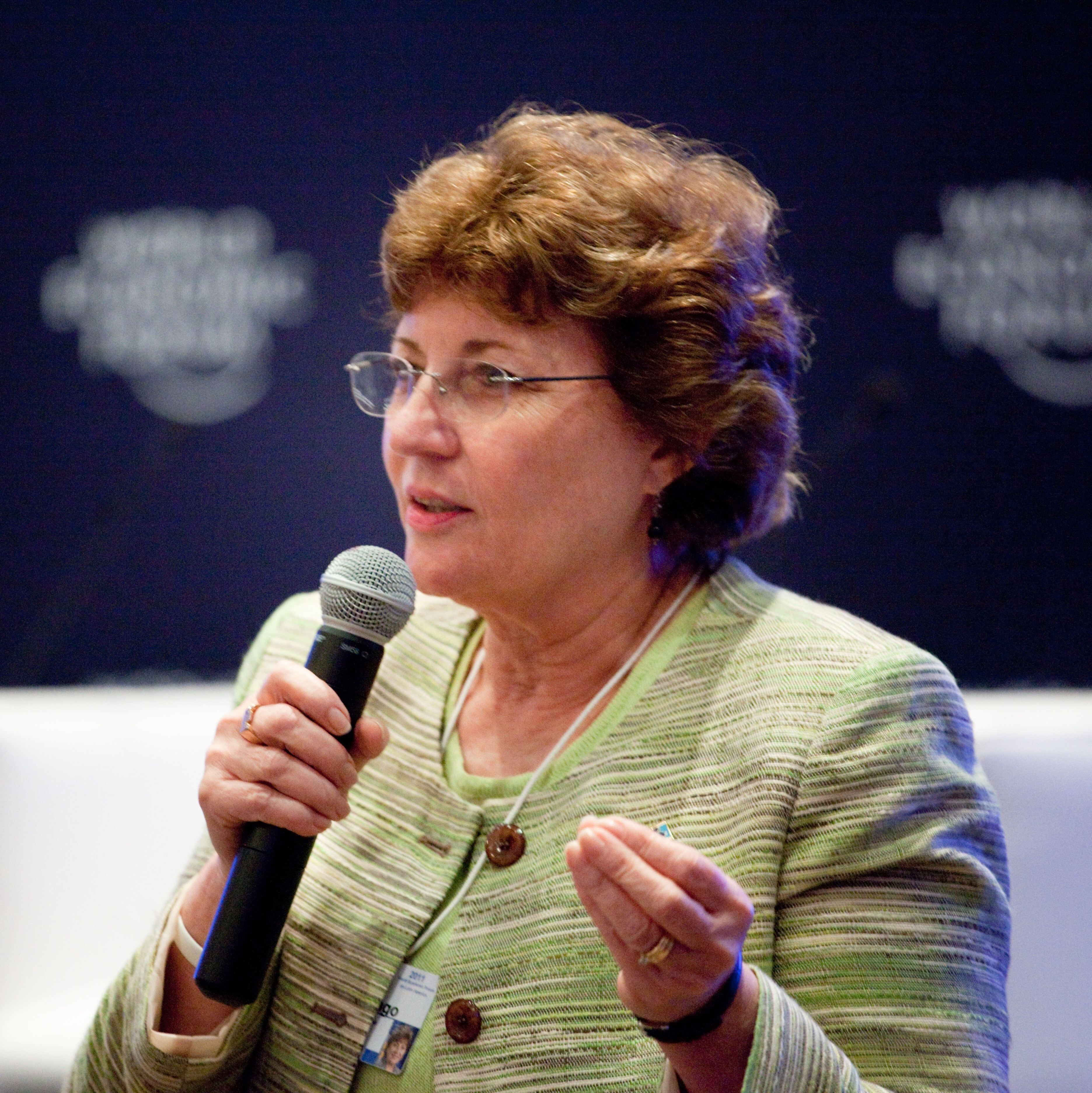 RIO DE JANEIRO/BRAZIL, 28APR11 - Mirta Roses Periago, Regional Director, World Health Organization, The Americas, Pan American Health Organization (PAHO), Washington DC; Global Agenda Council on Chronic Diseases & Well-being, captured during the World Economic Forum on Latin America in Rio de Janeiro, Brazil, April 28, 2011.